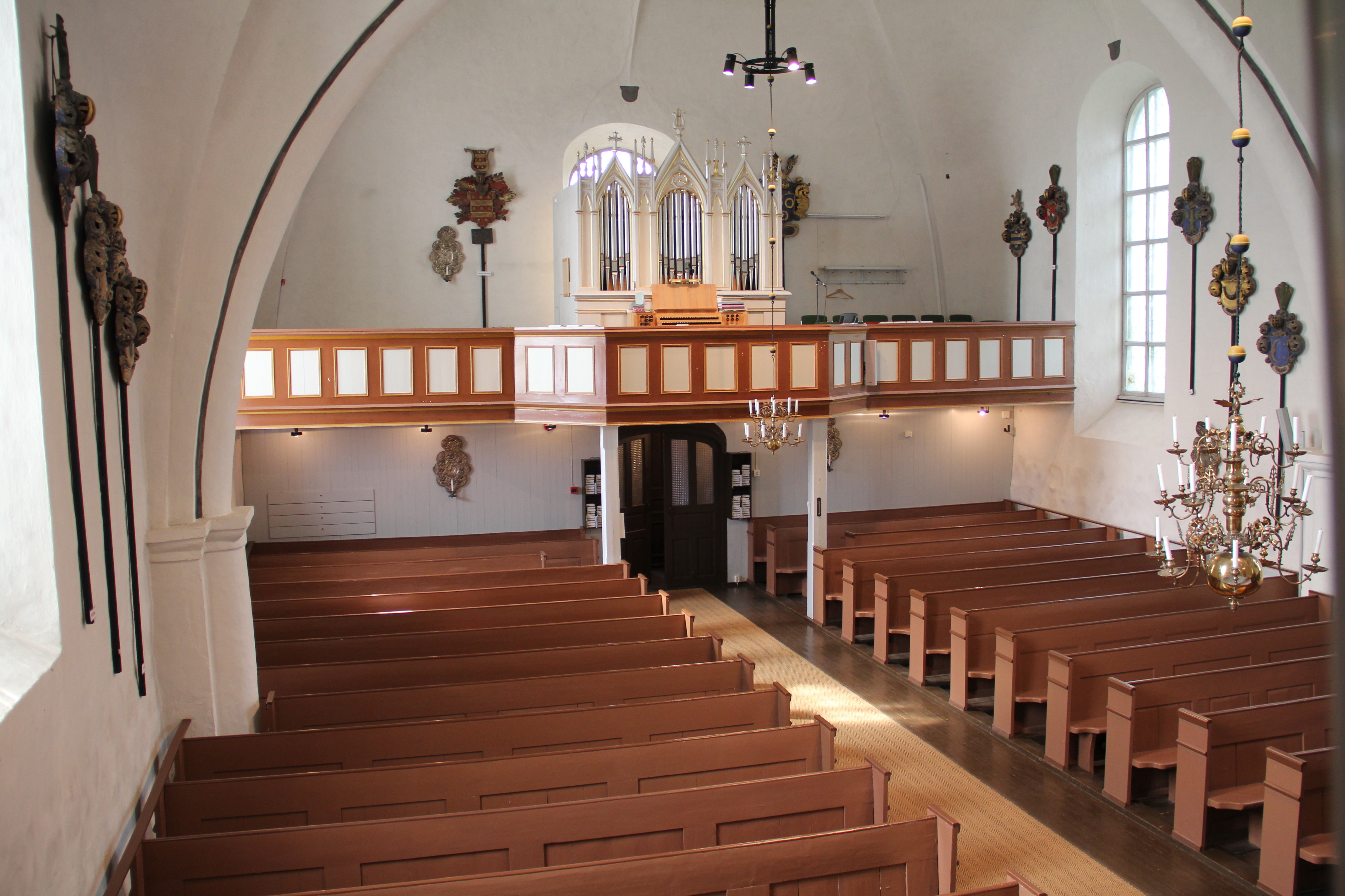 Askainen church, Askainen, Masku, Finland. - Pipe organ balcony.